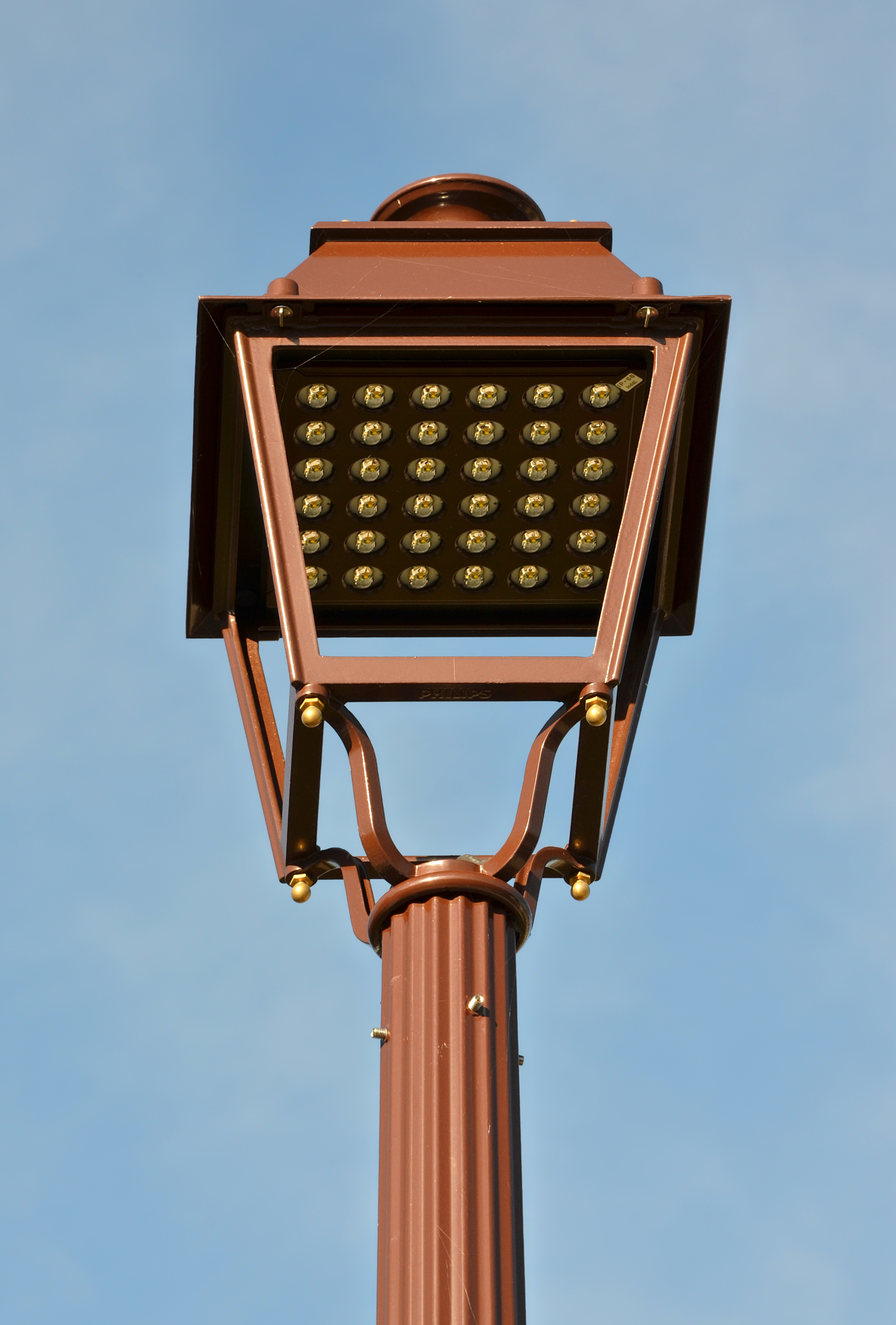 LED street light, Saint-Amant-de-Montmoreau, Charente, France.